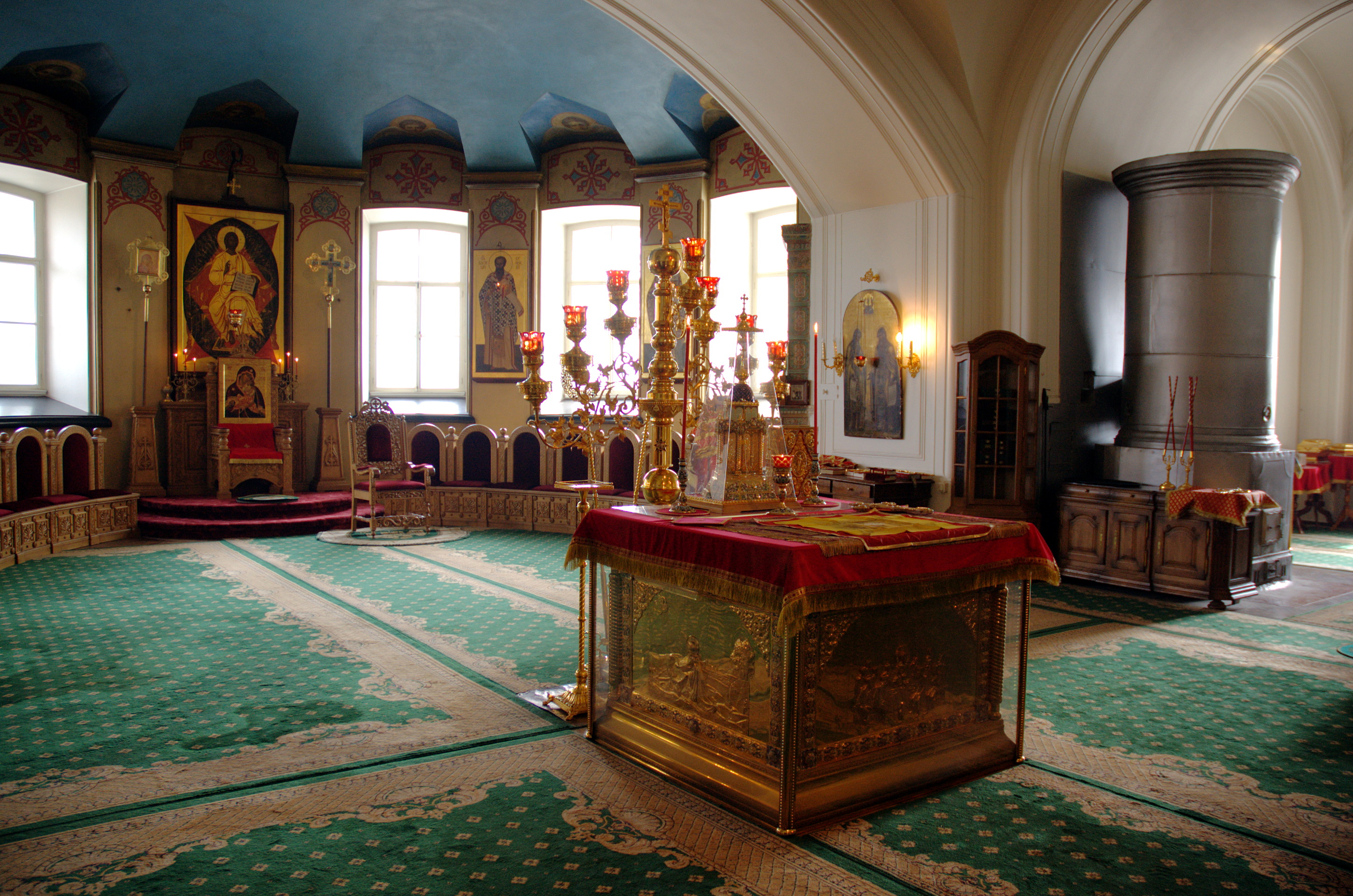 Sanctuary of the Holy Transfiguration Cathedral, Valaam Monastery. The Antimension is open on the Holy Table (altar) for the bishop's visit. At the rear is the Kathedra (bishop's throne).